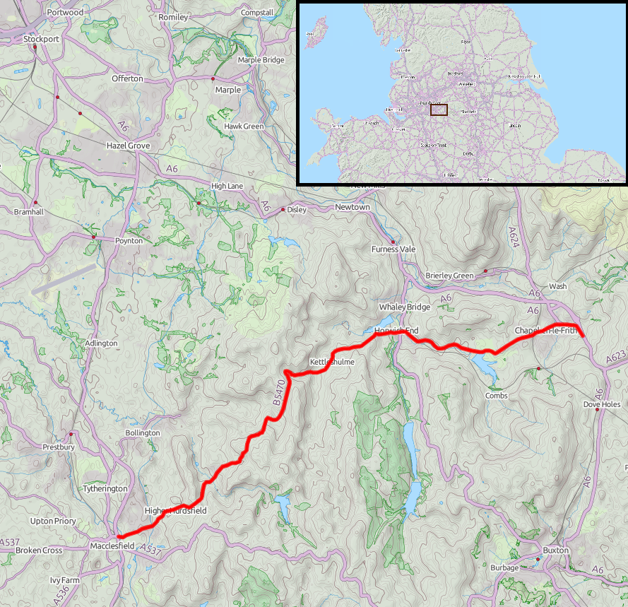 B5470 road (Chapel-en-le-Frith - Macclesfield) Legend: ━━━ Primary lines